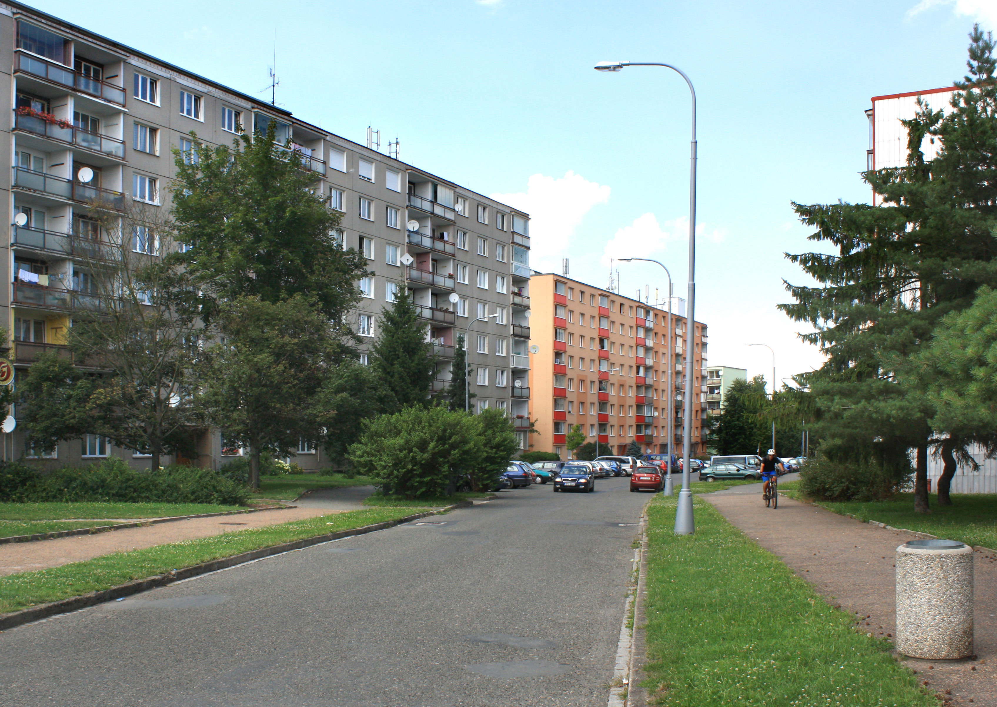 Pod Ohradou street in Jižní Předměstí, part of Rokycany, Czech Republic